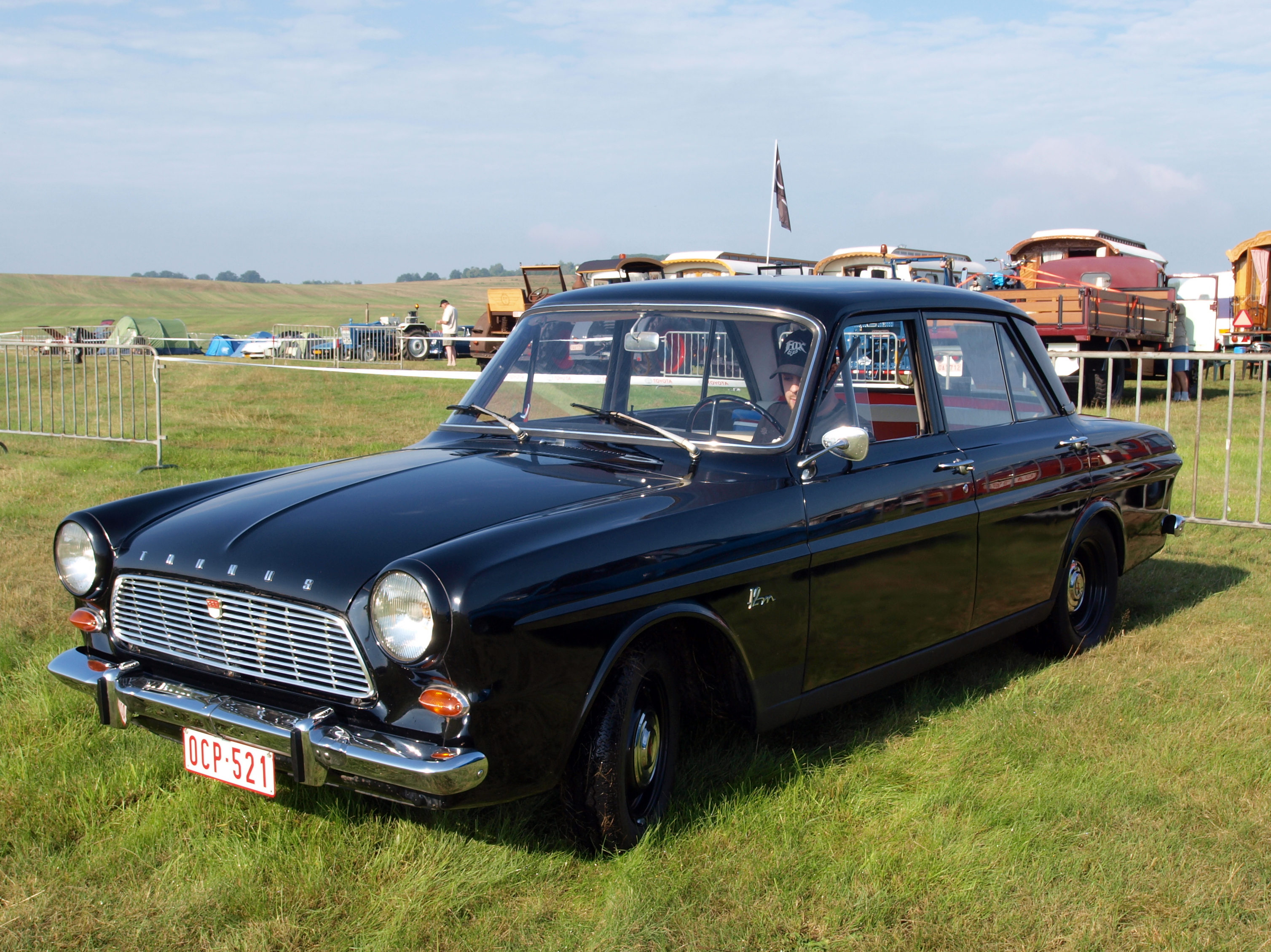 Photographed at The International Oldtimer Fly and Drive In 2010, Schaffen-Diest, Belgium.